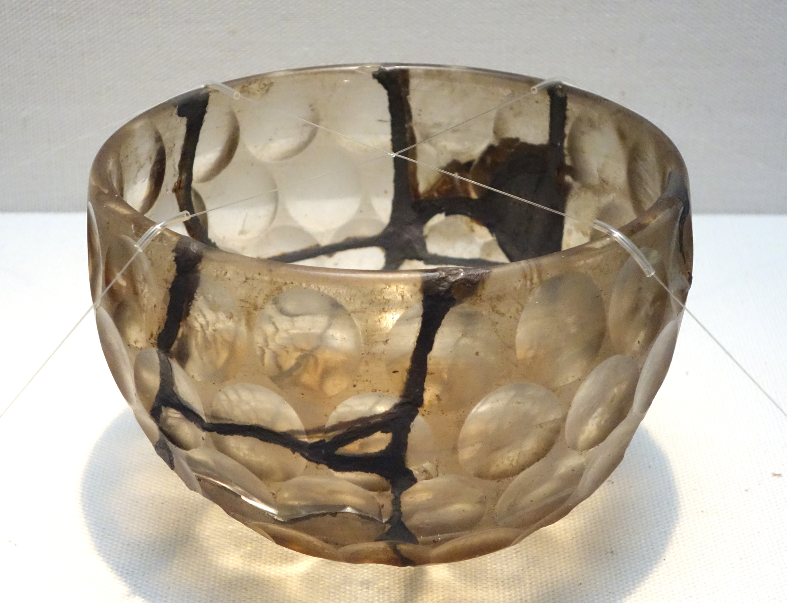 Exhibit in the Tokyo National Museum, Tokyo, Japan. This artwork is old enough so that it is in the public domain.